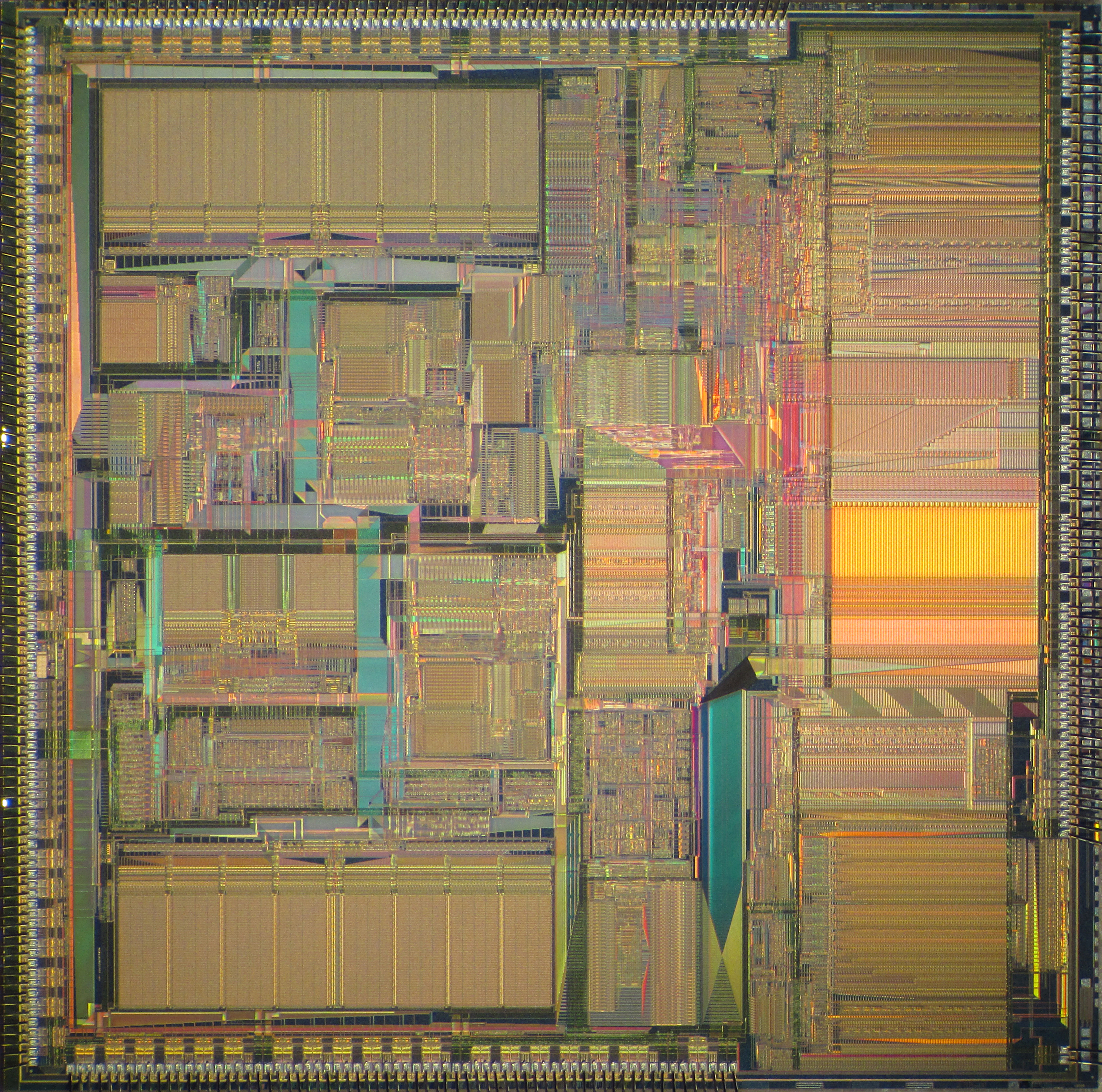 Die shot of Motorola 88110 microprocessor (XC88110RC45D, 05E34M mask).